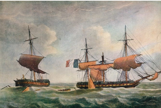 The French frigate Piémontaise capturing the East Indiaman Warren Hastings